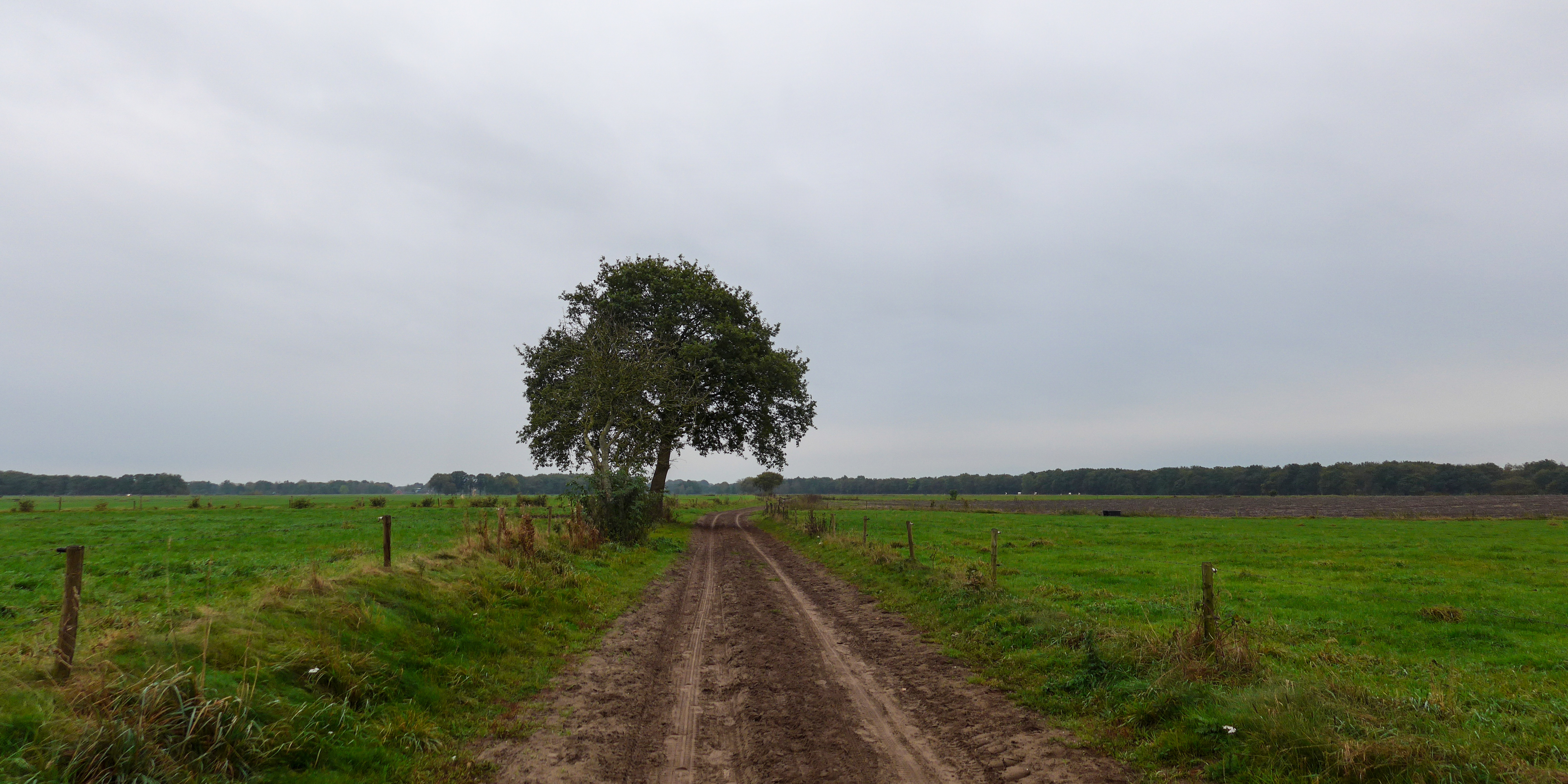 The Kerkweg, an old mass path in the Dutch province of Drenthe.